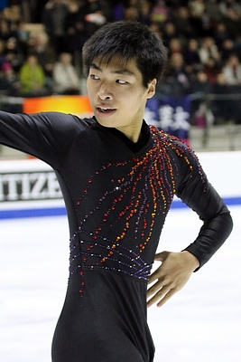 Hiroaki SATO JPN – 15th Place